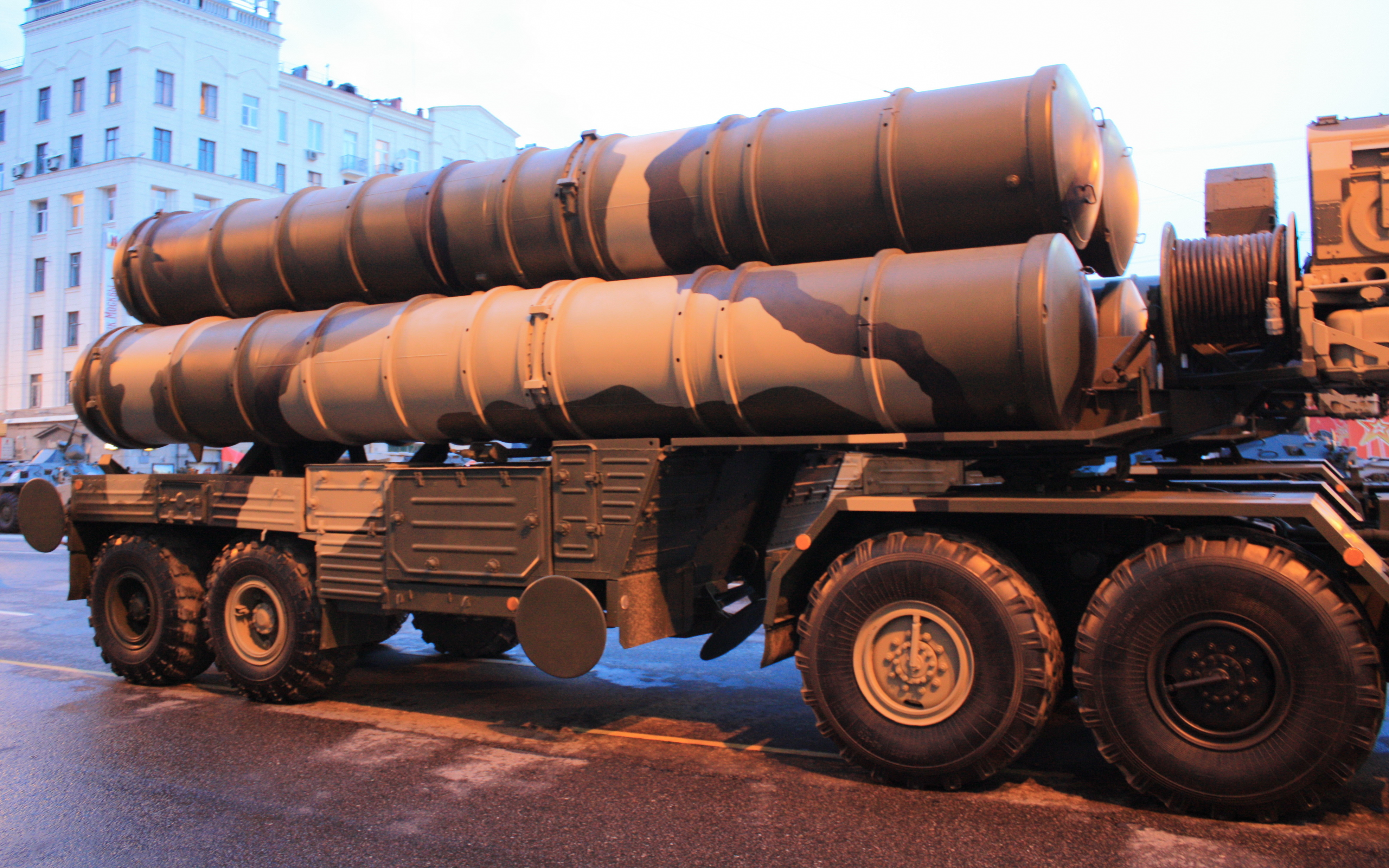 Launchers of anti-aircraft missiles S-400 Triumf (SA-21) at a rehearsal of the Victory Parade May 4, 2010